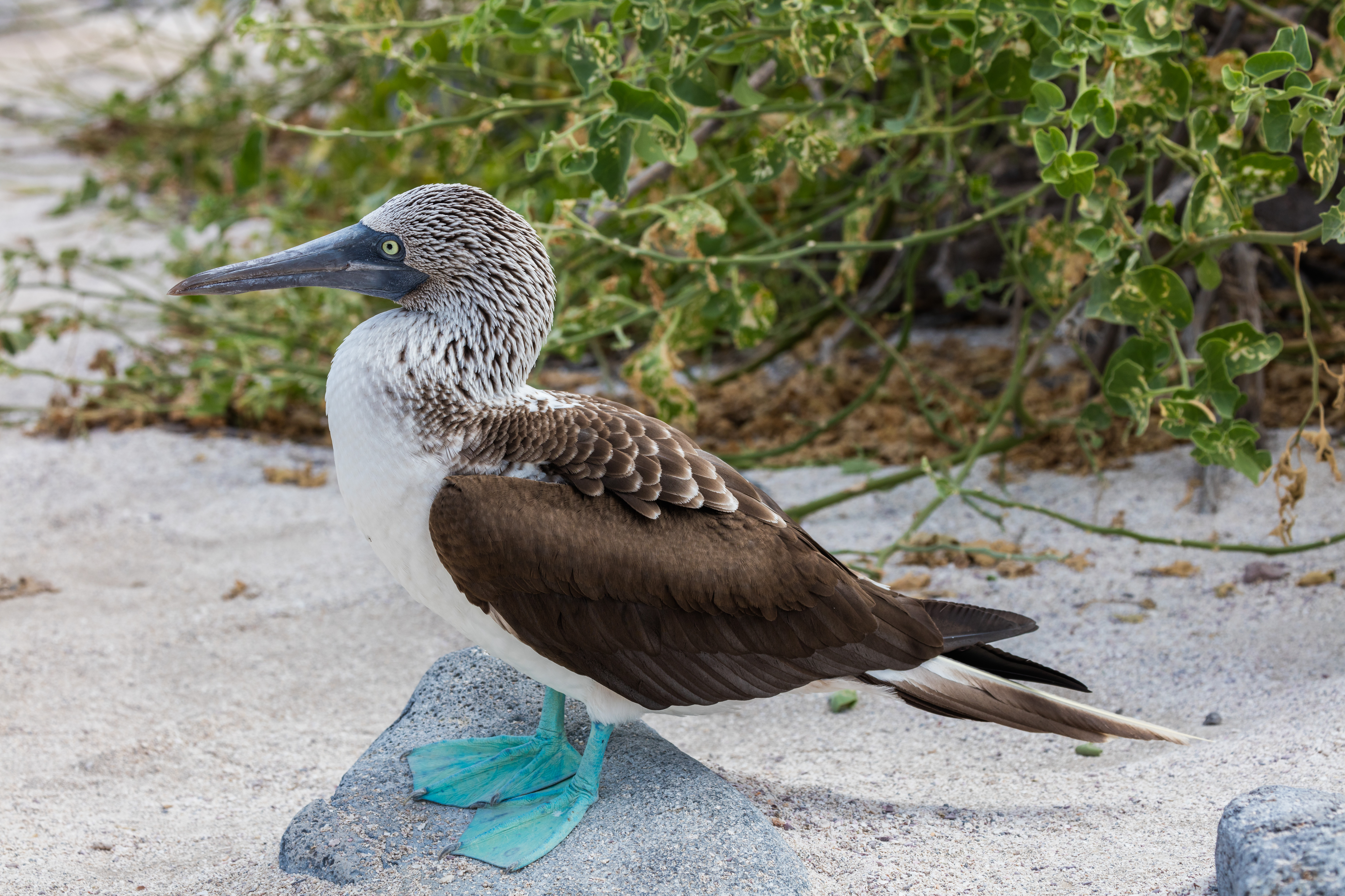 Blue-footed booby (Sula nebouxii), Lobos Island, Galapagos Islands, Ecuador